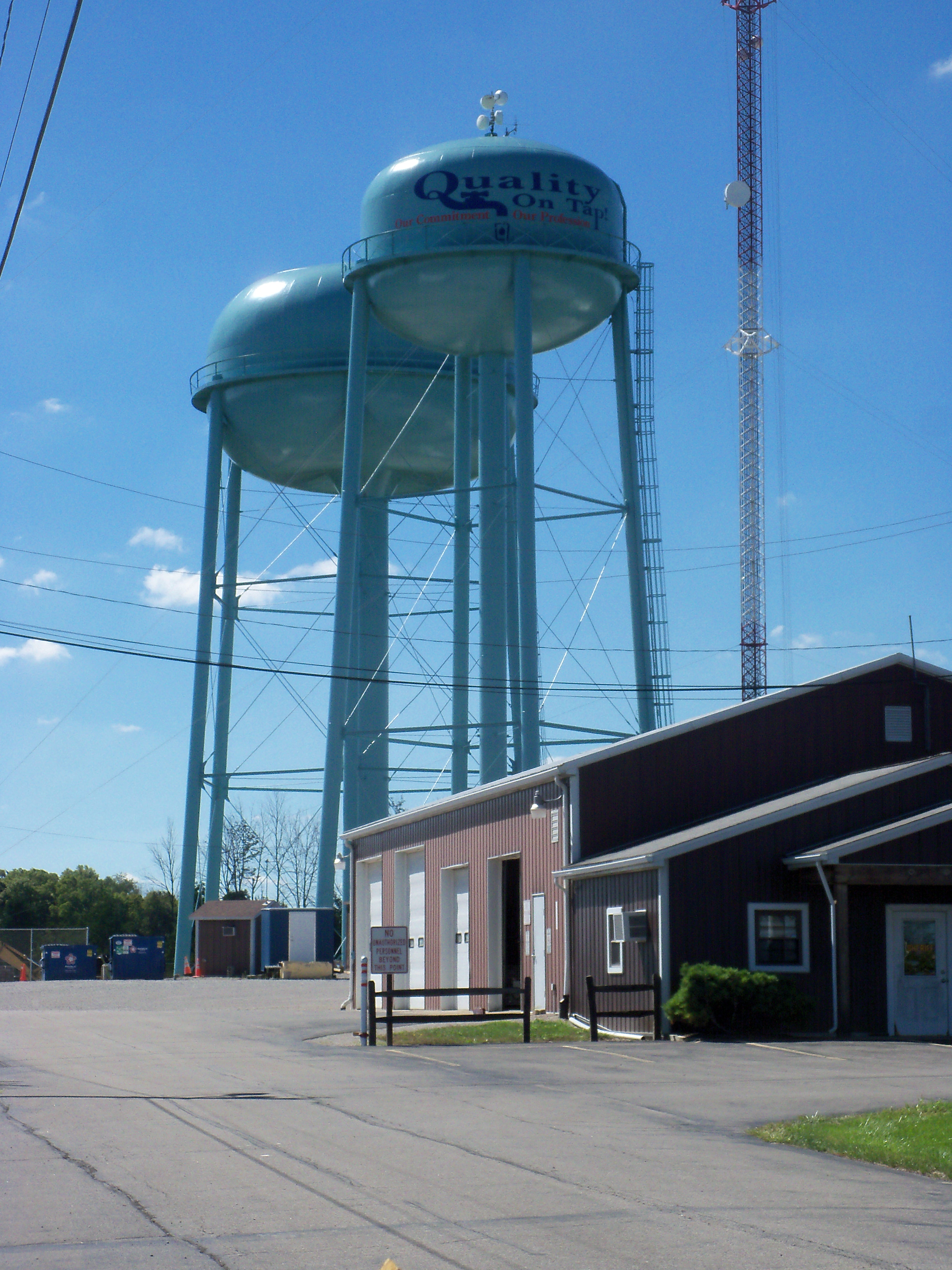 Rural Lorain County Water Authority, Ohio, water towers